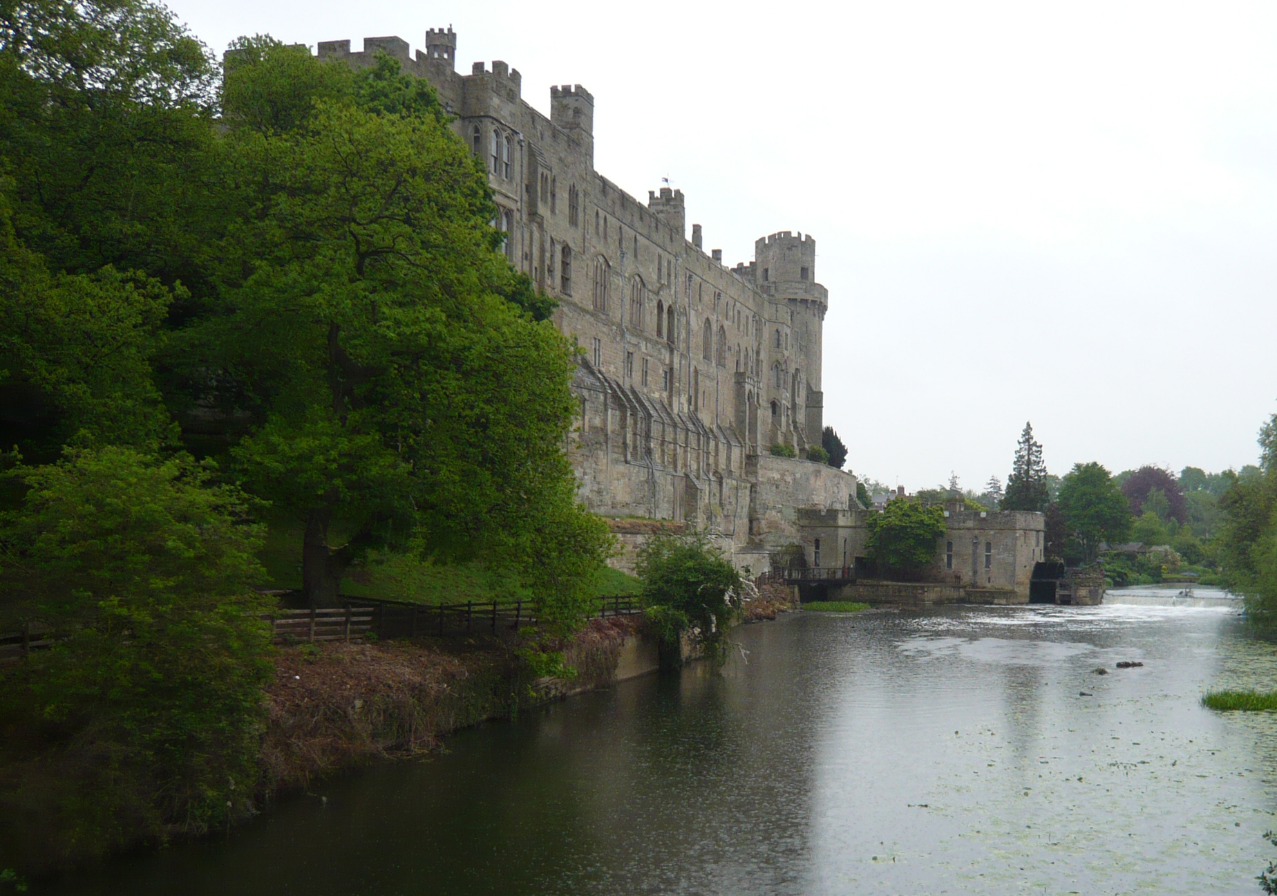 The River Avon running alongside Warwick Castle, Warwick, England.